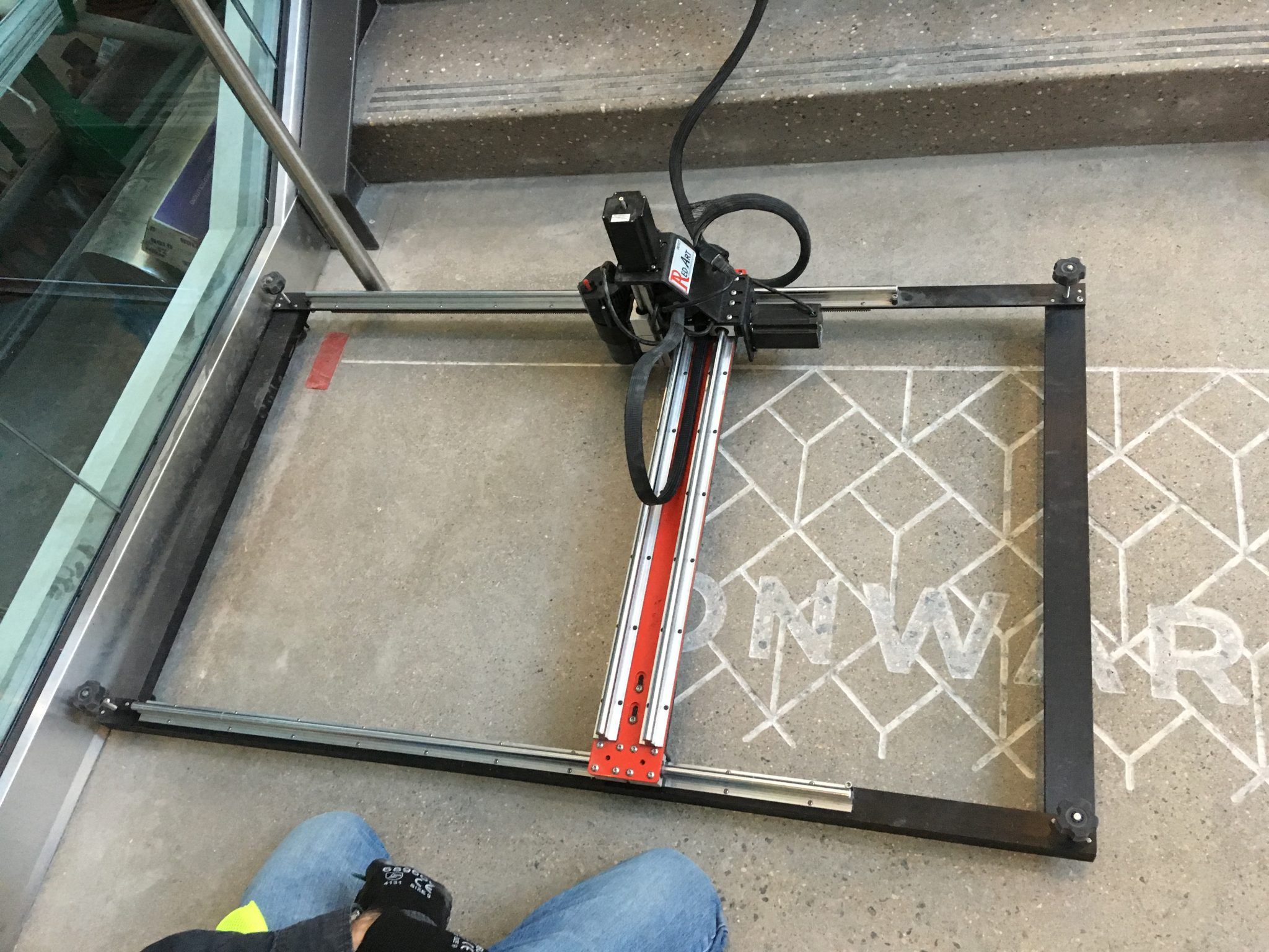 Pictured is a decorative concrete company engraving a text-pattern onto an existing surface using the a patented CNC concrete engraving system.